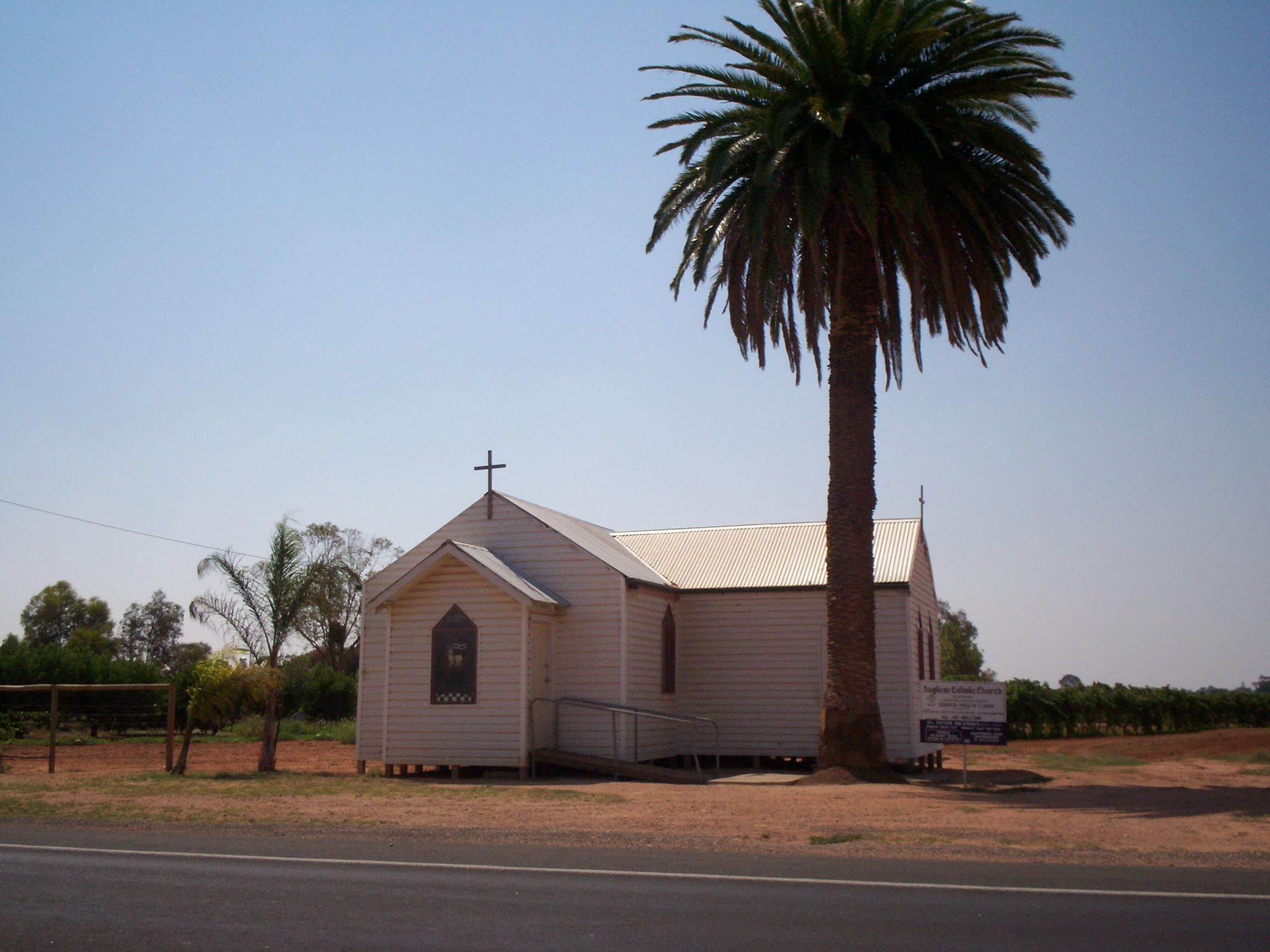 Anglican Catholic Church in Birdwoodton, Victoria, Australia. Photograph taken by myself, January 15, en:2007.